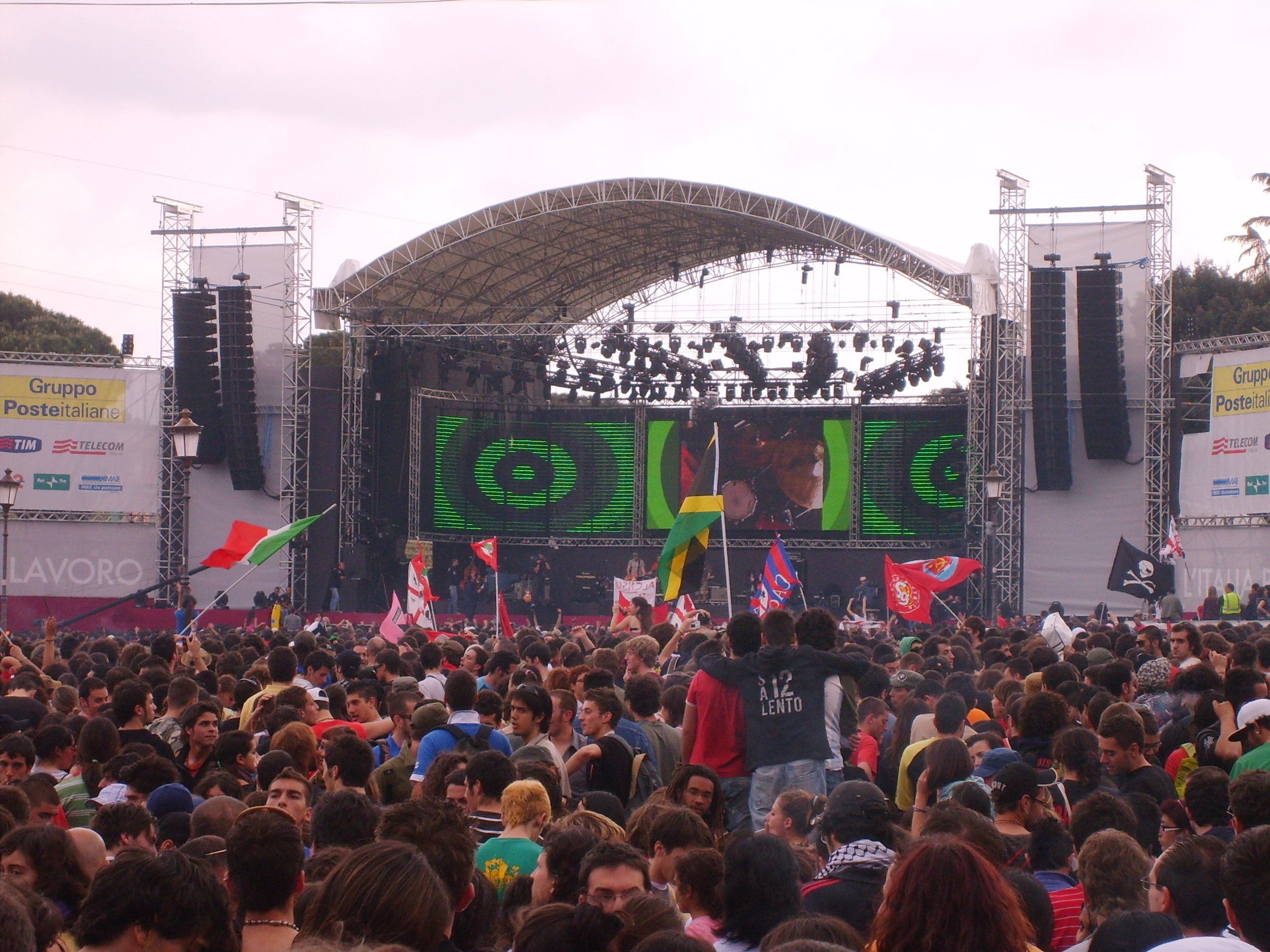 Each year, on the 1st May there is a huge free concert in "San Giovanni" square in Rome, Italy. In 2007 there were approximately 700000 people [1]. Closer view of the stage during the concert.